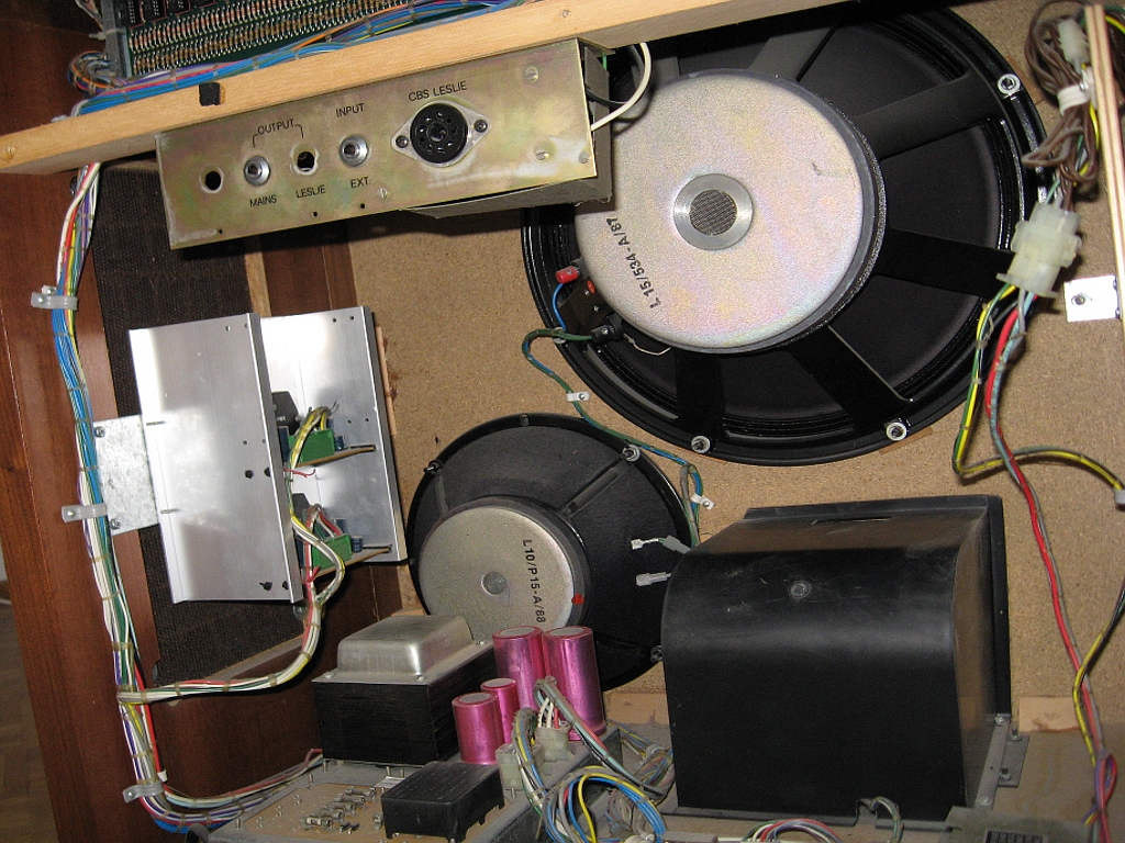 Farfisa Pergamon "technical view 6"